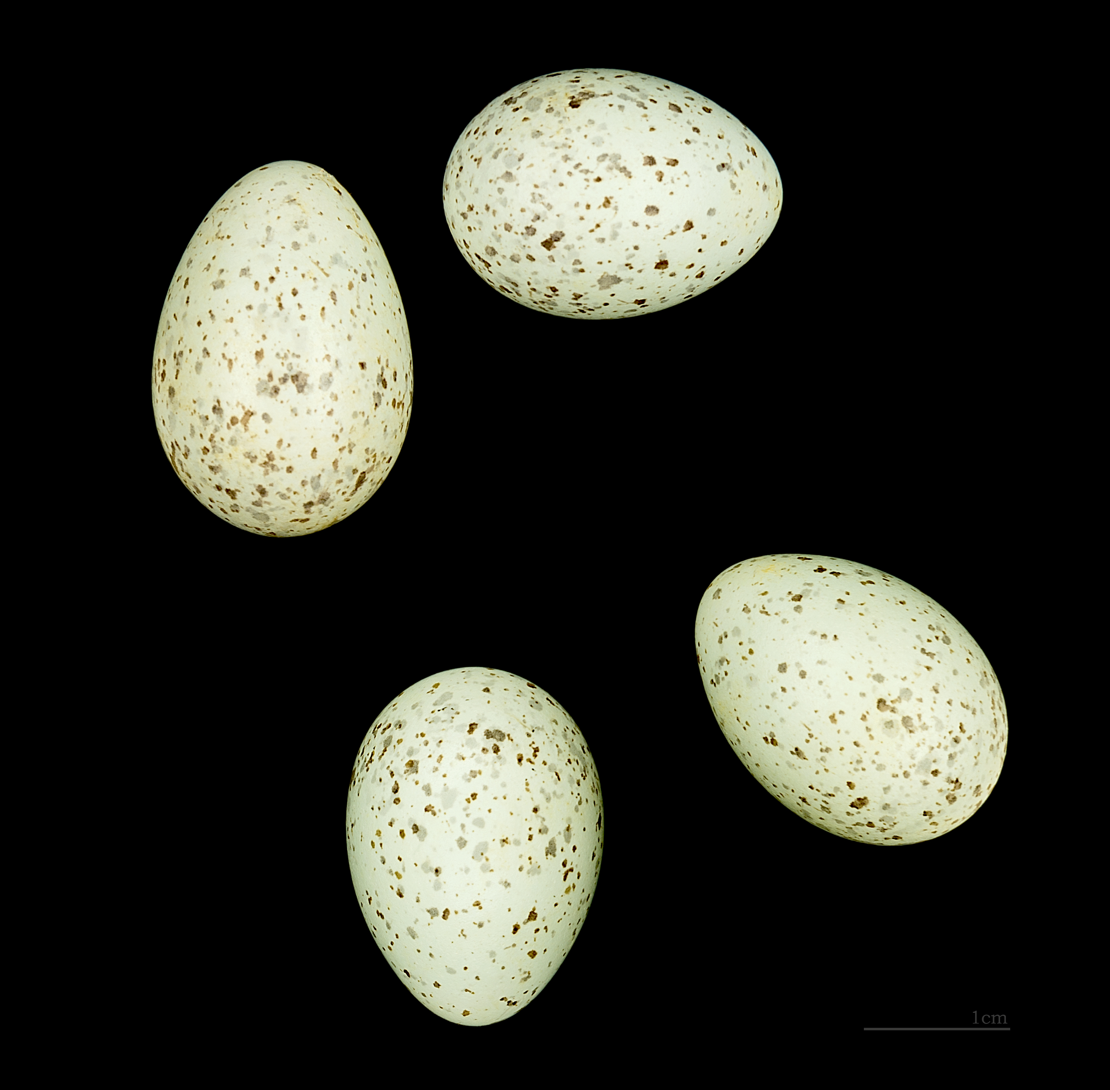 Egg of Black-headed Bunting. Collection of Jacques Perrin de Brichambaut.